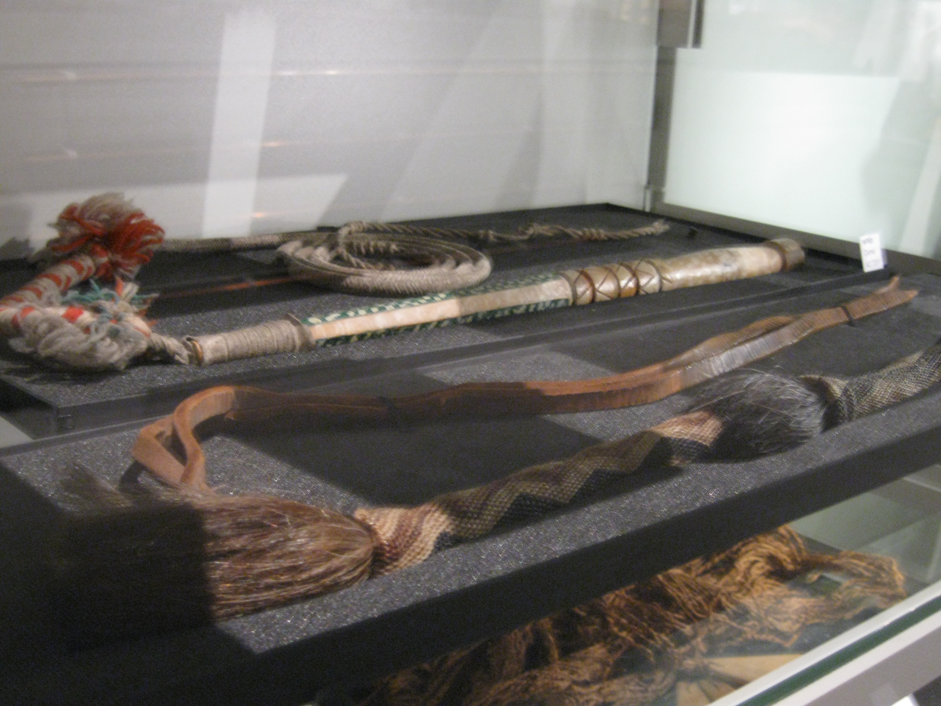 A pair of traditional Dene whips on permanent display at the UBC Museum of Anthropology in Vancouver, Canada.